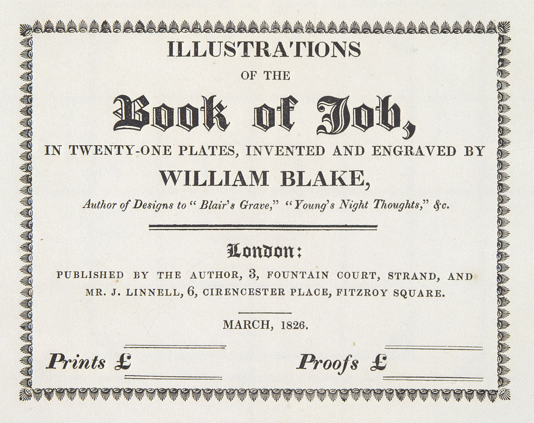 Cover page of William Blake's Illustrations of the Book of Job